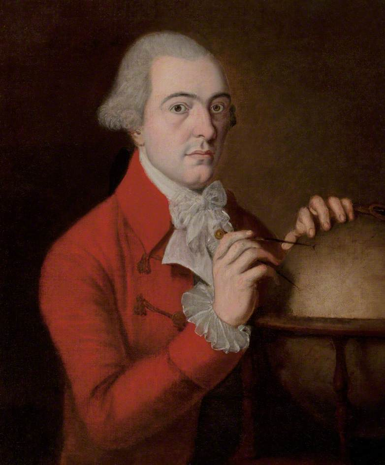 Portrait of James Robertson (1753–1829) FRS, Scottish surveyor and map maker.